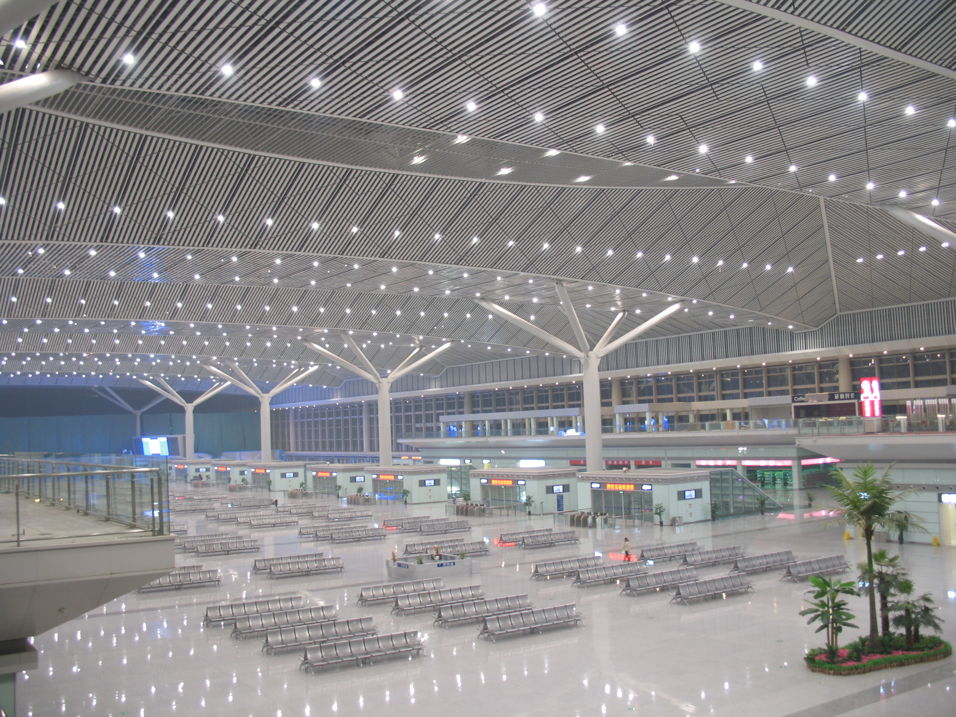 inside Xi'an North Railway Station